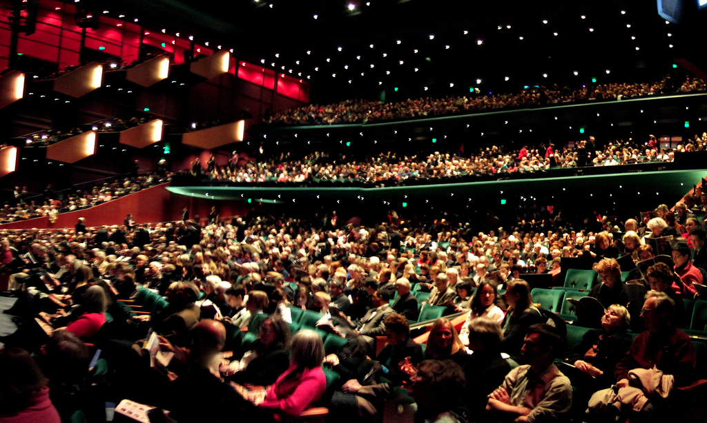 McCaw Hall, home to Seattle Opera, Seattle Center, Seattle WA